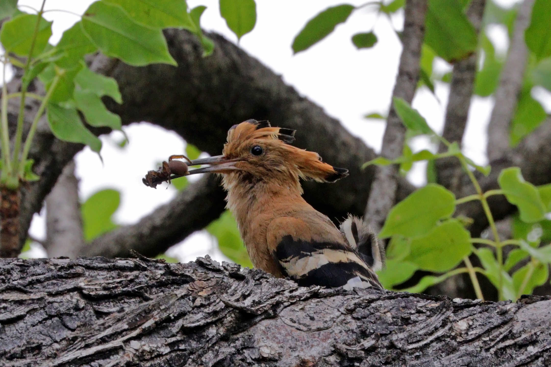 Madagascar hoopoe (Upupa marginata) with spider for chick, Isalo National Park, Madagascar